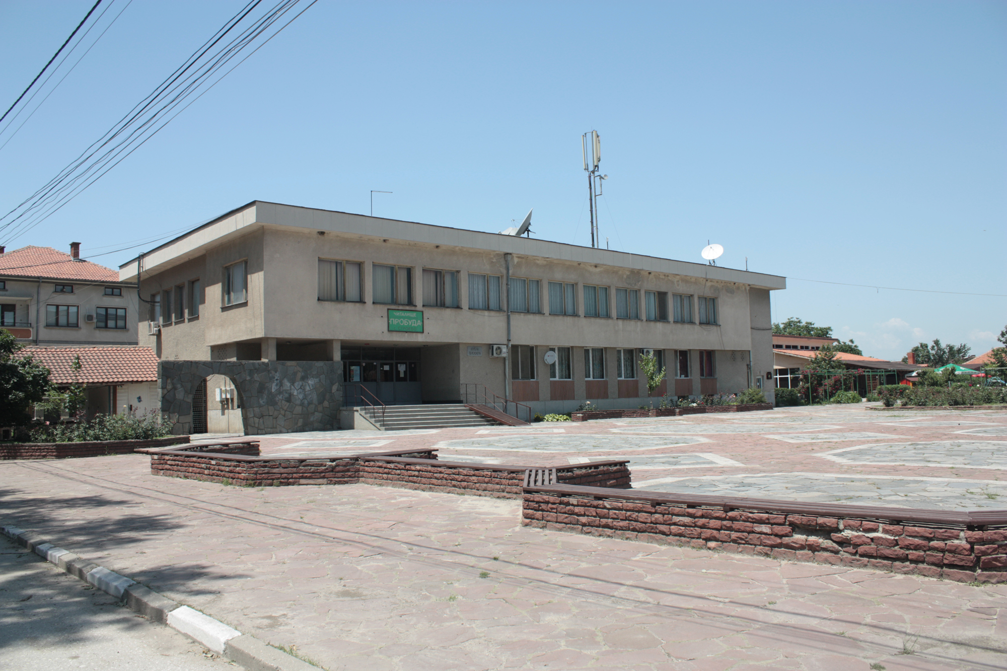 Culture house (chitalishte in Stroevo, Bulgaria